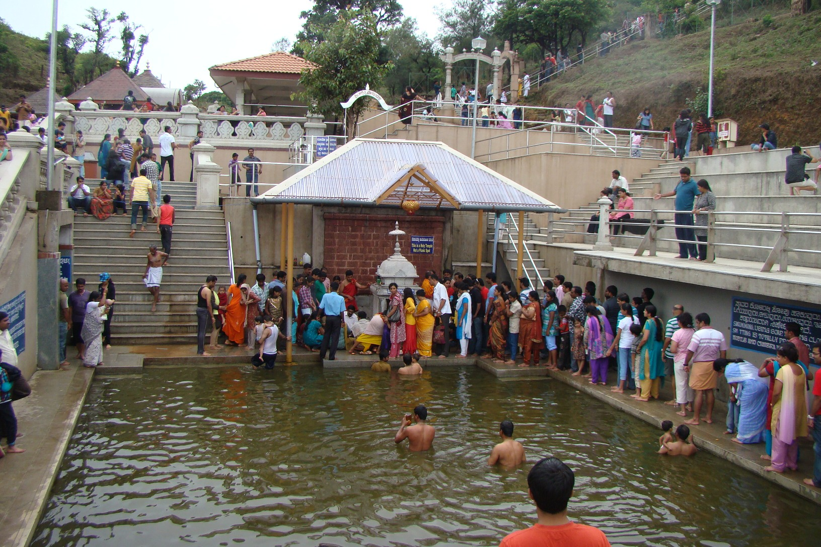 Thalakkaveri Temple, Brahmagiri, Karnataka